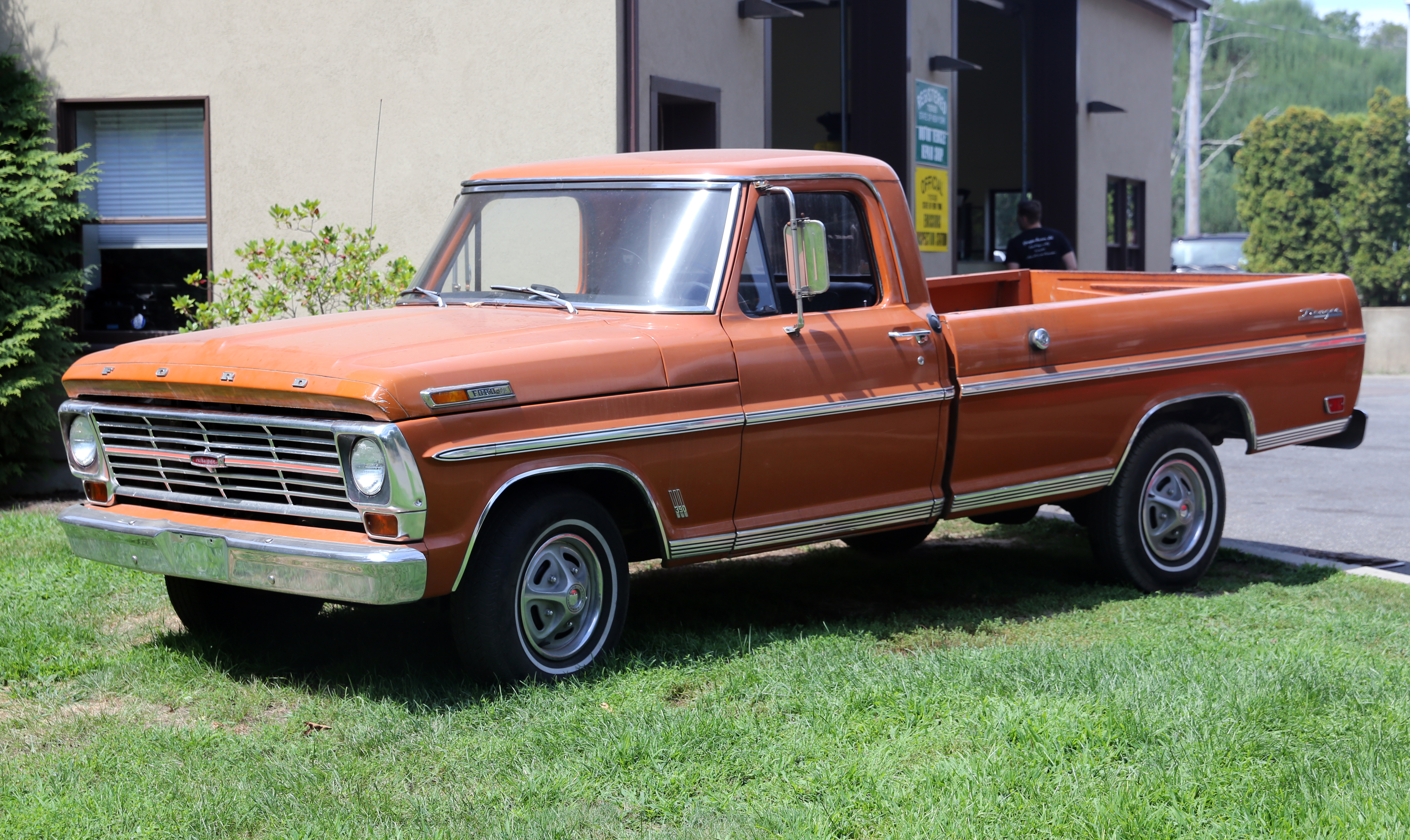 A 1969 Ford F-100 Ranger with the 390 ci V8 option.